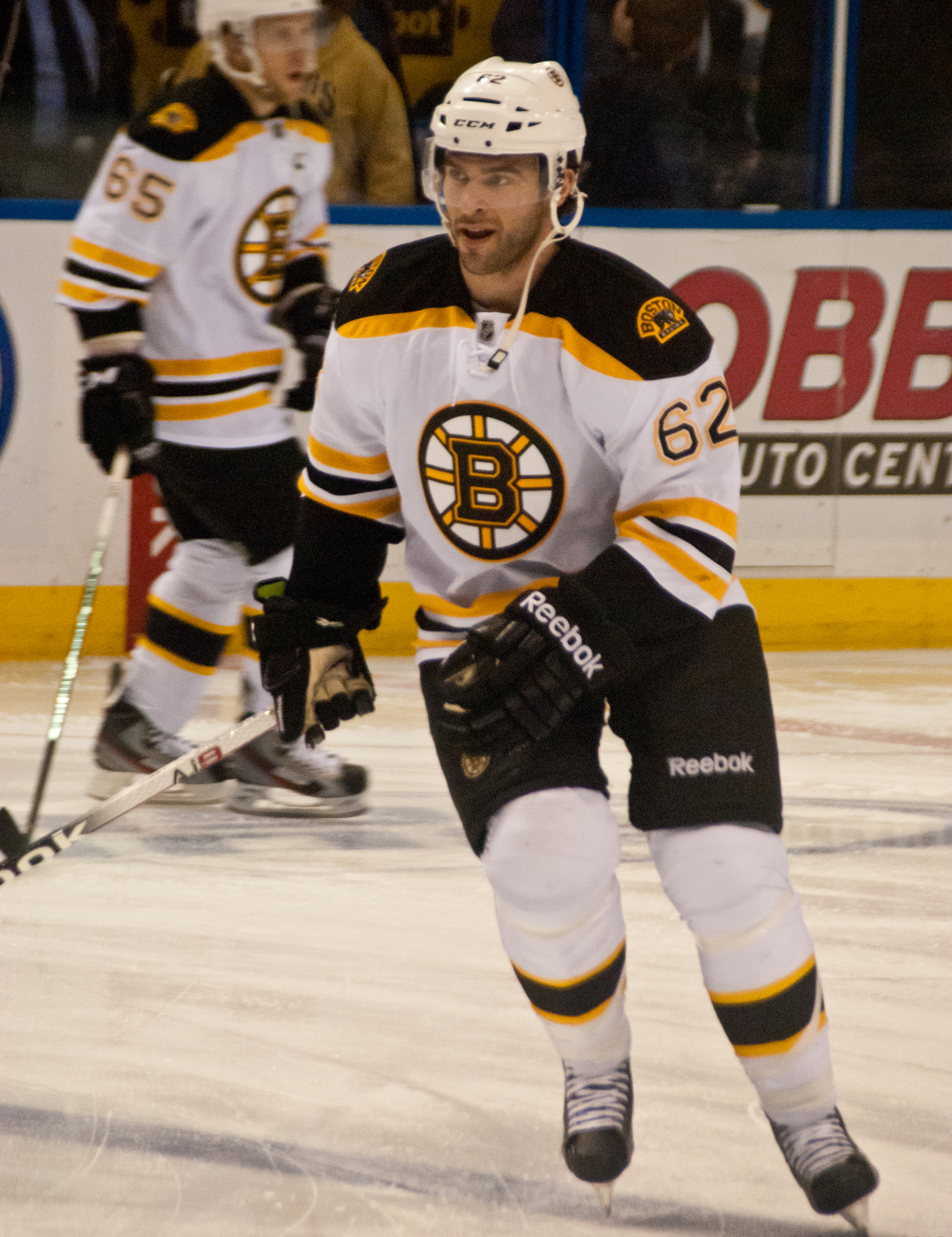 62 - Josh Hennessy #65 - Andrew Bodnarchuk Boston Bruins vs. St. Louis Blues in National Hockey League action. Bruins win! Glass seats! Everything is happening! Photo taken by Sarah Connors on February 22, 2012 at Downtown West, St. Louis, MO, USA with a Nikon D200.